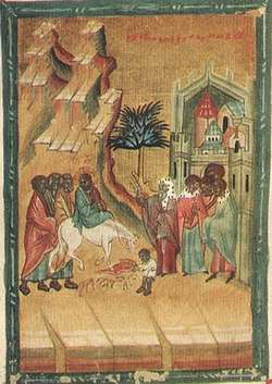 Russian Orthodox icon of the Entry into Jerusalem from Tver, 15th century.